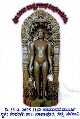 Kasamalgi Parshunath, 5 km from Kittur Author and Source : Manjunath Doddamani, gajendragad, Karnataka (North), India